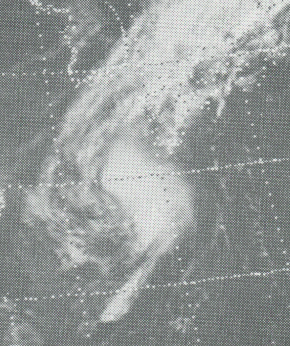 This weather satellite picture was taken of Tropical Storm Shirley early on September 8, 1974